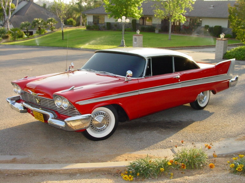 2 "survivors" of the many red-and-white 1958 Plymouth Fury stunt cars used in Christine now reside in private hands, one in California (pictured)One in Florida and a promo Christine that was given away in a contest and now resides in England.